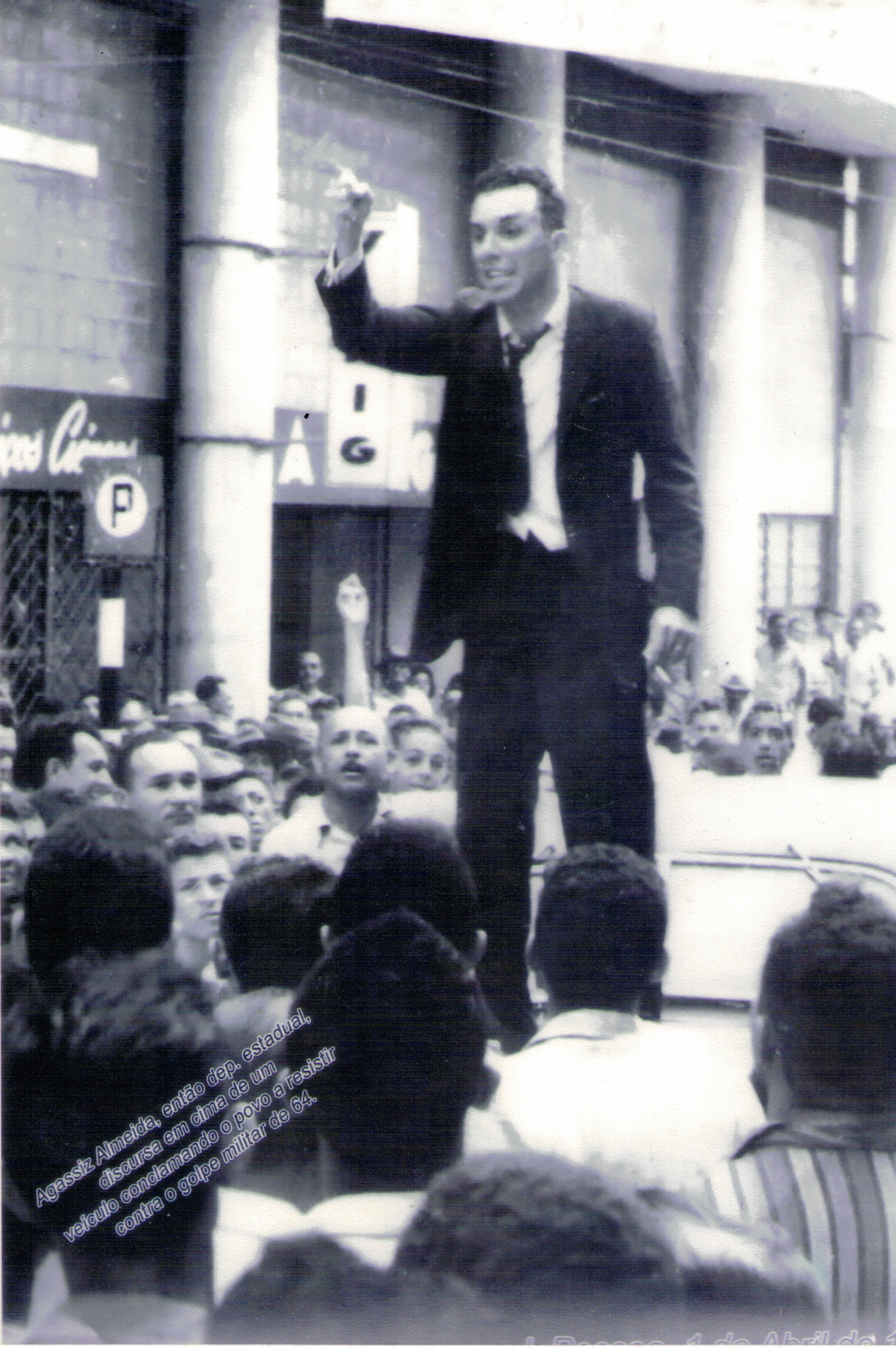 Em 1 de abril de 1964, na cidade de João Pessoa, Agassiz Almeida, Deputado Estadual na Paraíba, conclama a população a rejeitar o golpe de 31 de março de 1964.